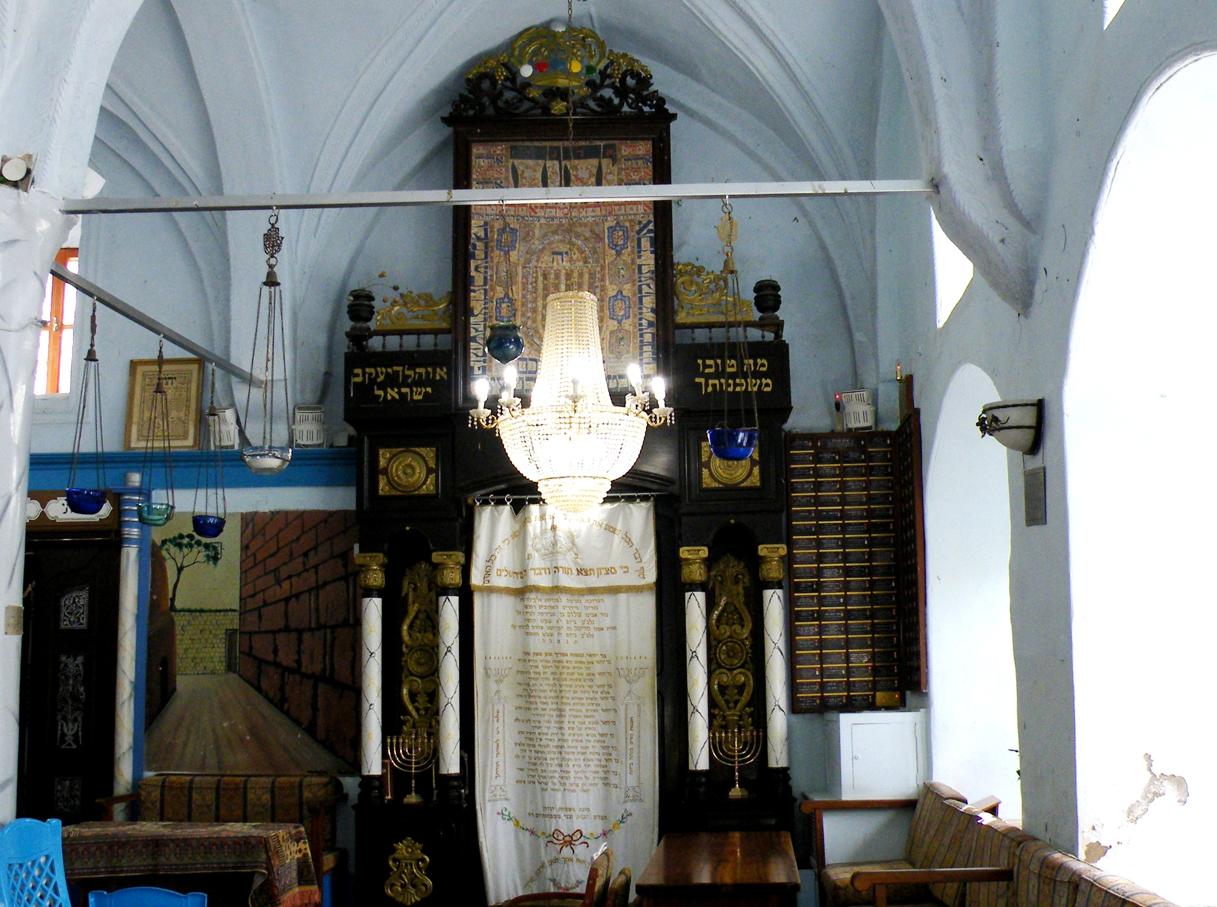 Torah Ark at the Abuhav Synagogue, Safed, Israel